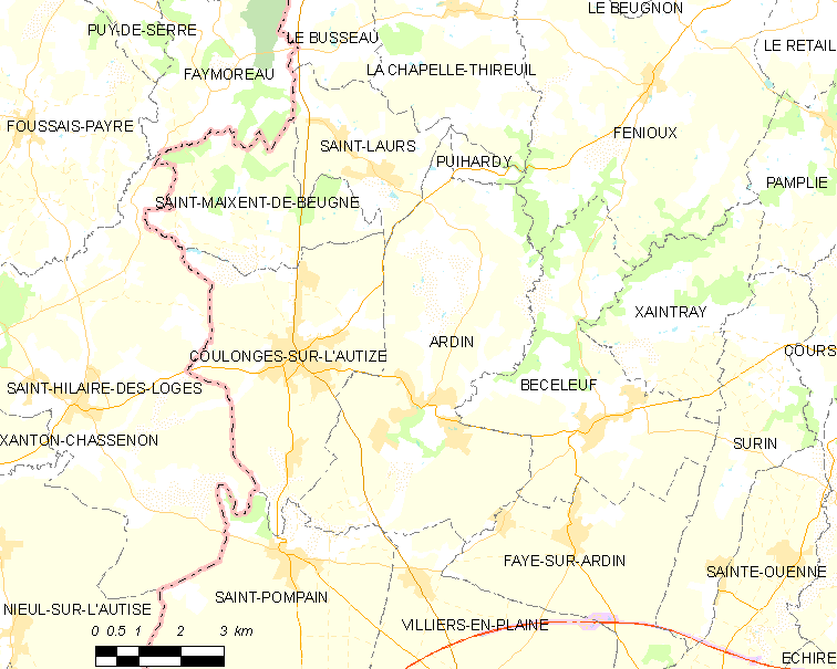 Map of French municipality Ardin